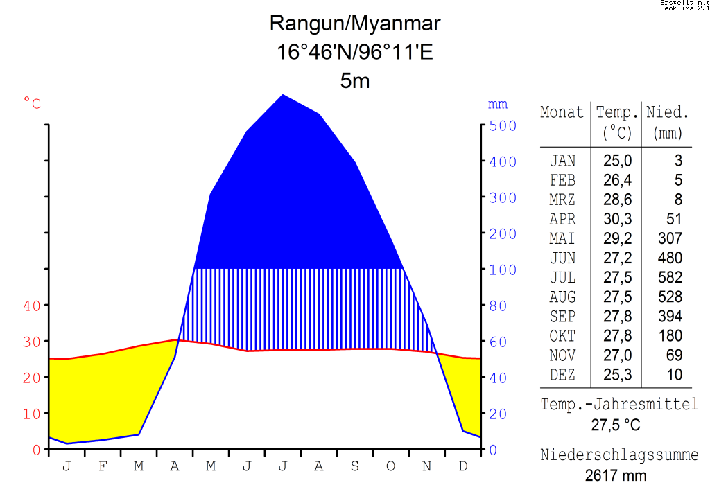 climate chart in the format by Walther and Lieth, metric, °Celsisus and millimeters, made with Geoklima 2.1